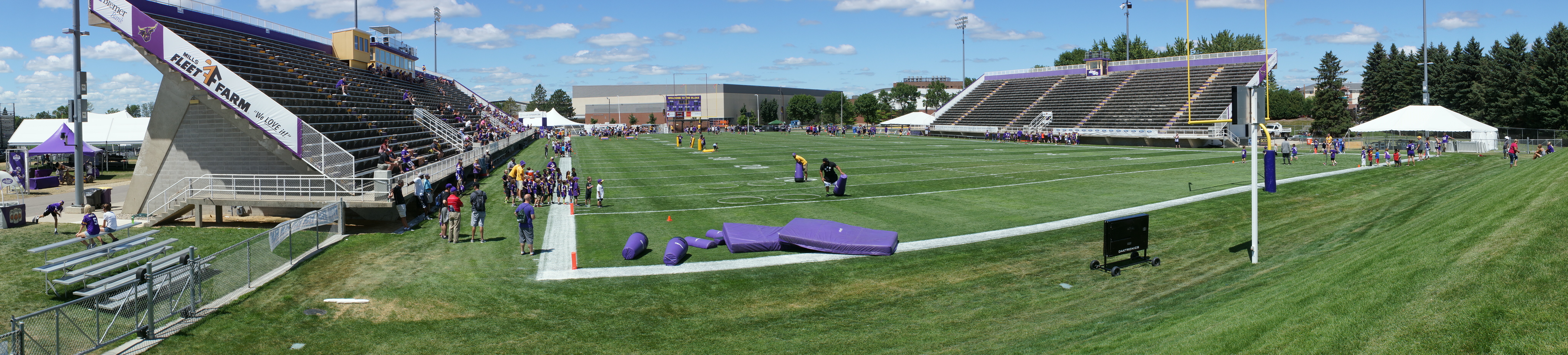 A picture of Blakeslee Stadium on the Minnesota State University, Mankato campus during a Vikings Training Camp in 2016.